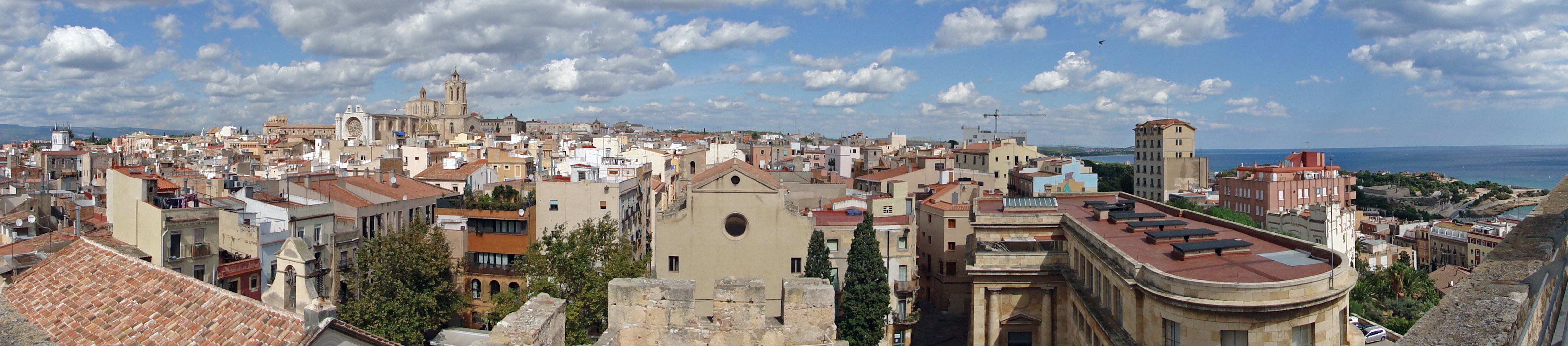 Panoramic view of Tarragona, Catalonia, Spain